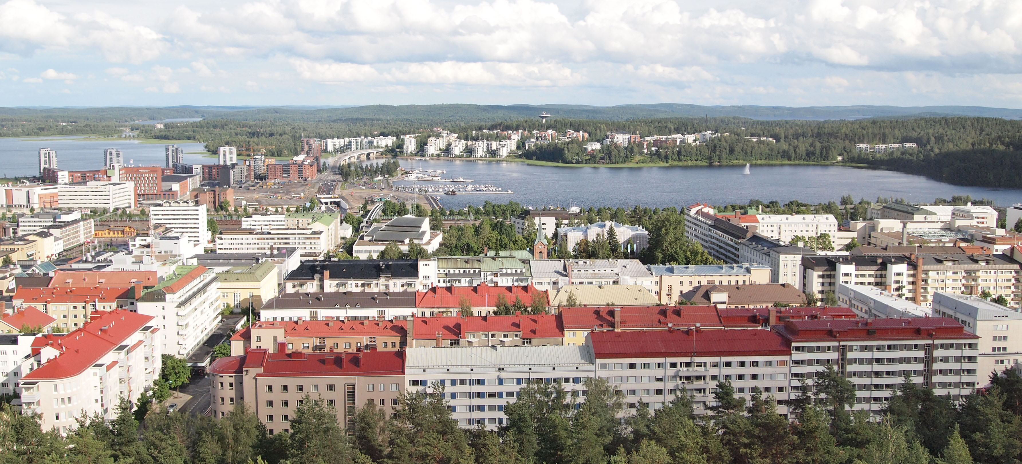 View from Vesilinna tower towards centre in Jyväskylä.